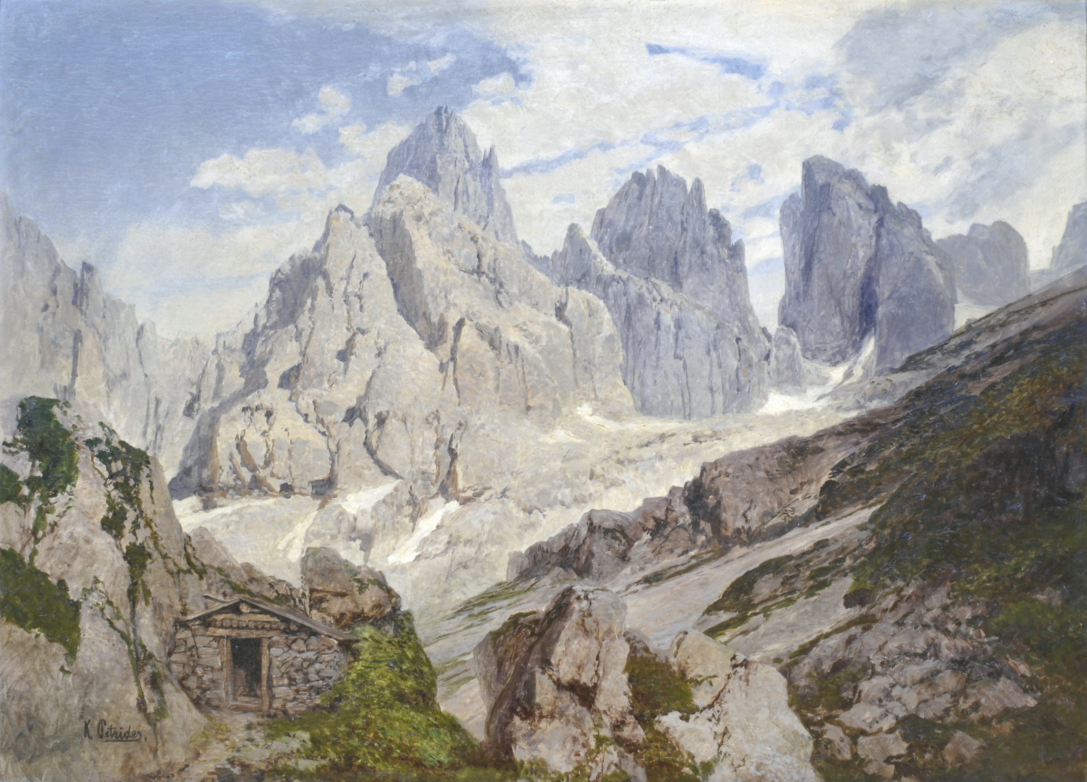 The Langkofel group